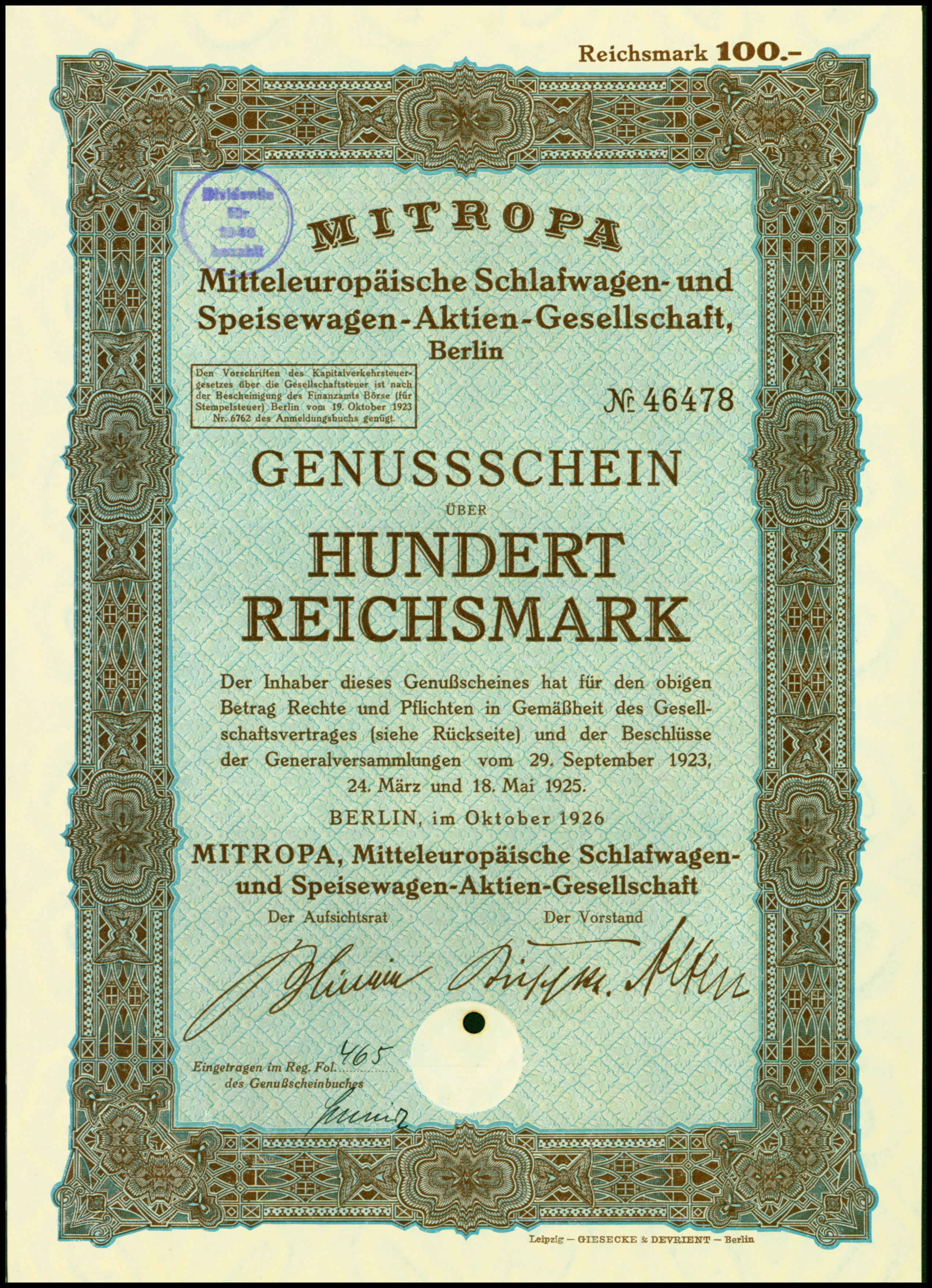 Participation certificate of the Mitropa AG, issued October 1926